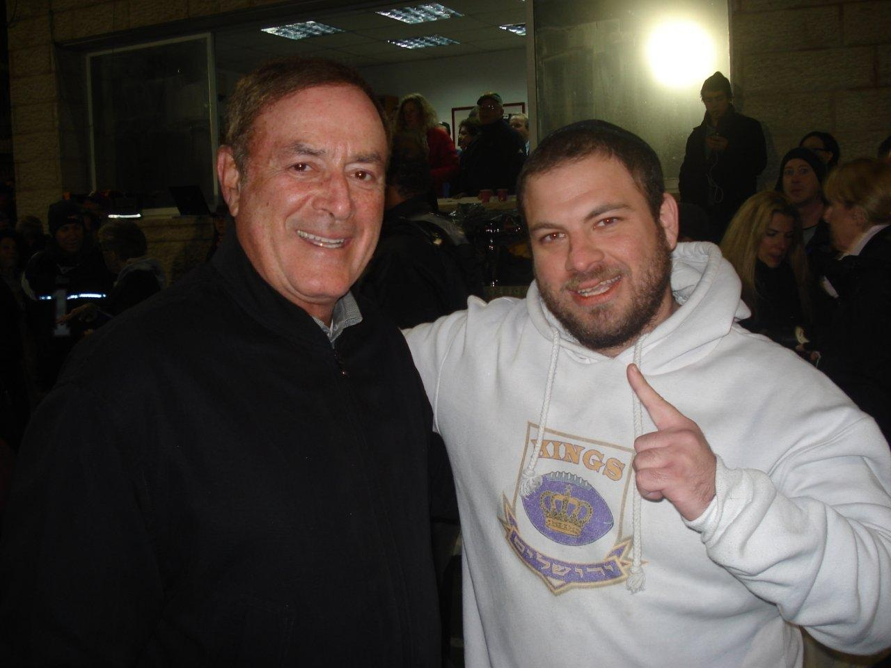 Ari Louis with Al Michaels at Kraft Family Stadium in Jerusalem, Israel.